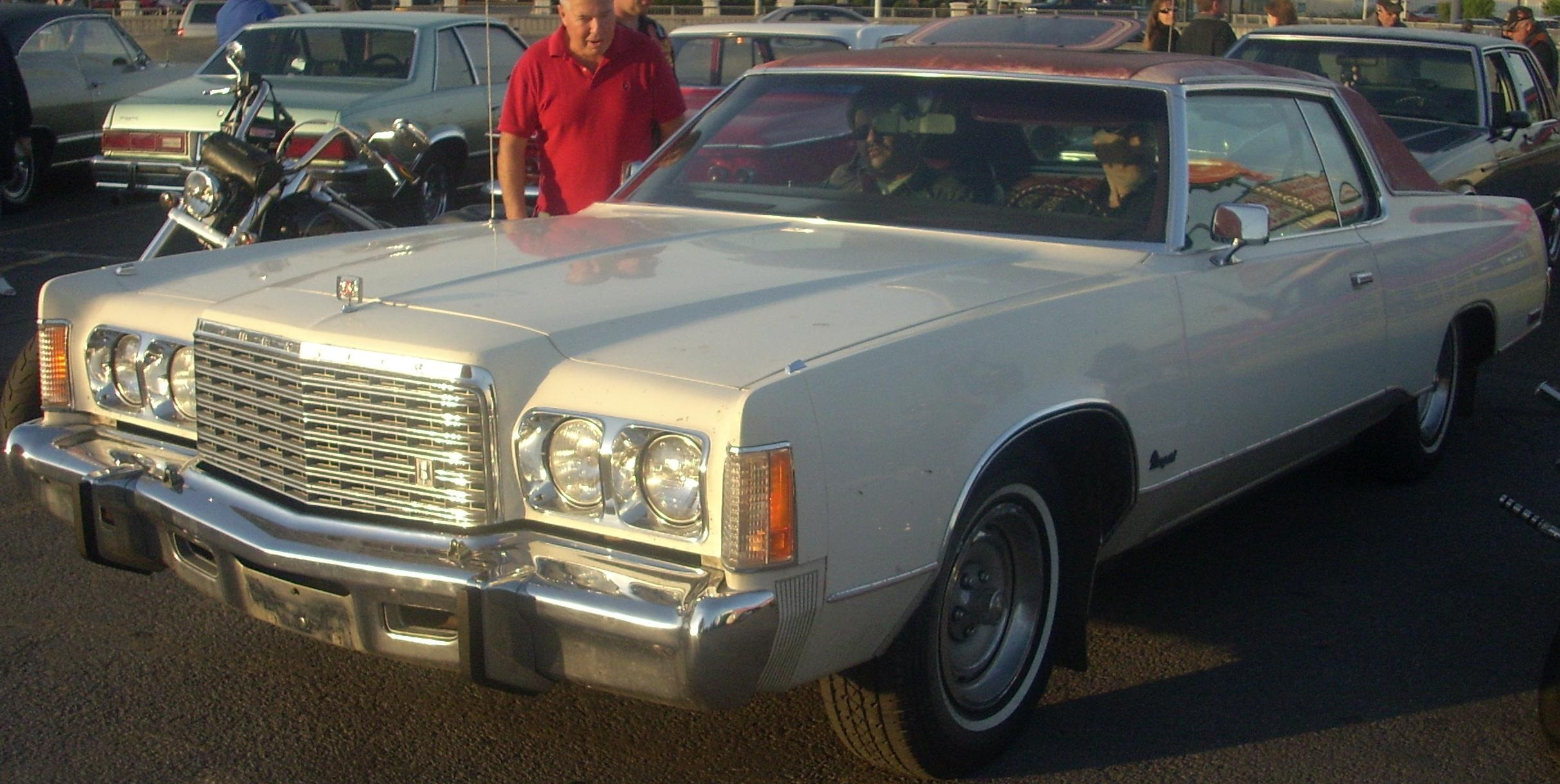 1975 Chrysler Newport photographed in Montreal, Quebec, Canada at Gibeau Orange Julep.